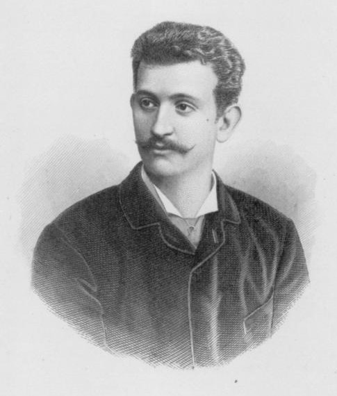 Engraved portrait of Austrian pianist Robert Fischhof (1856–1918)